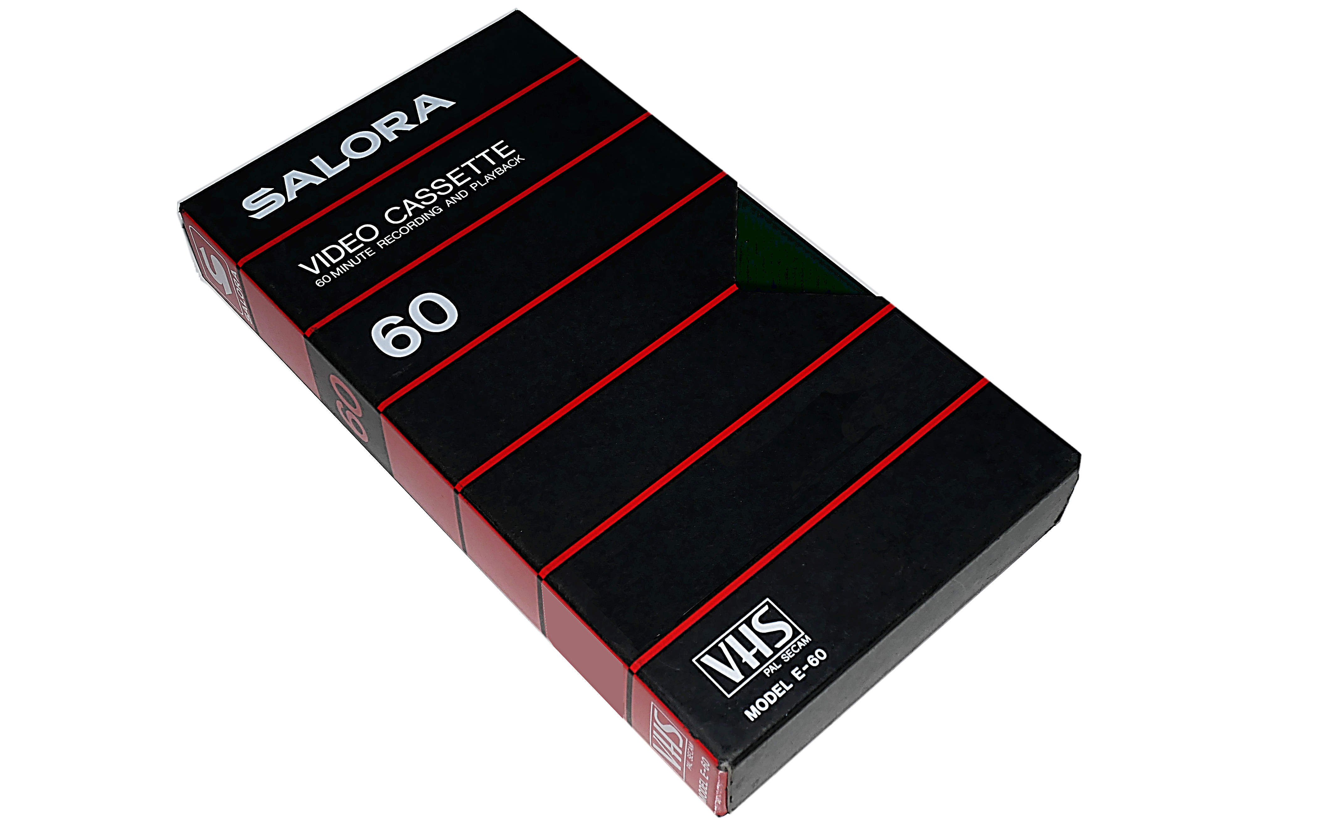 VHS video cassette by the Finnish company Salora (Salora Model E-60). Year 1983...1984 approximately. Blank 60 minute tape for recording and playback. Suitable for PAL and Secam systems. Salora Oy Salo Finland. Made in Japan.